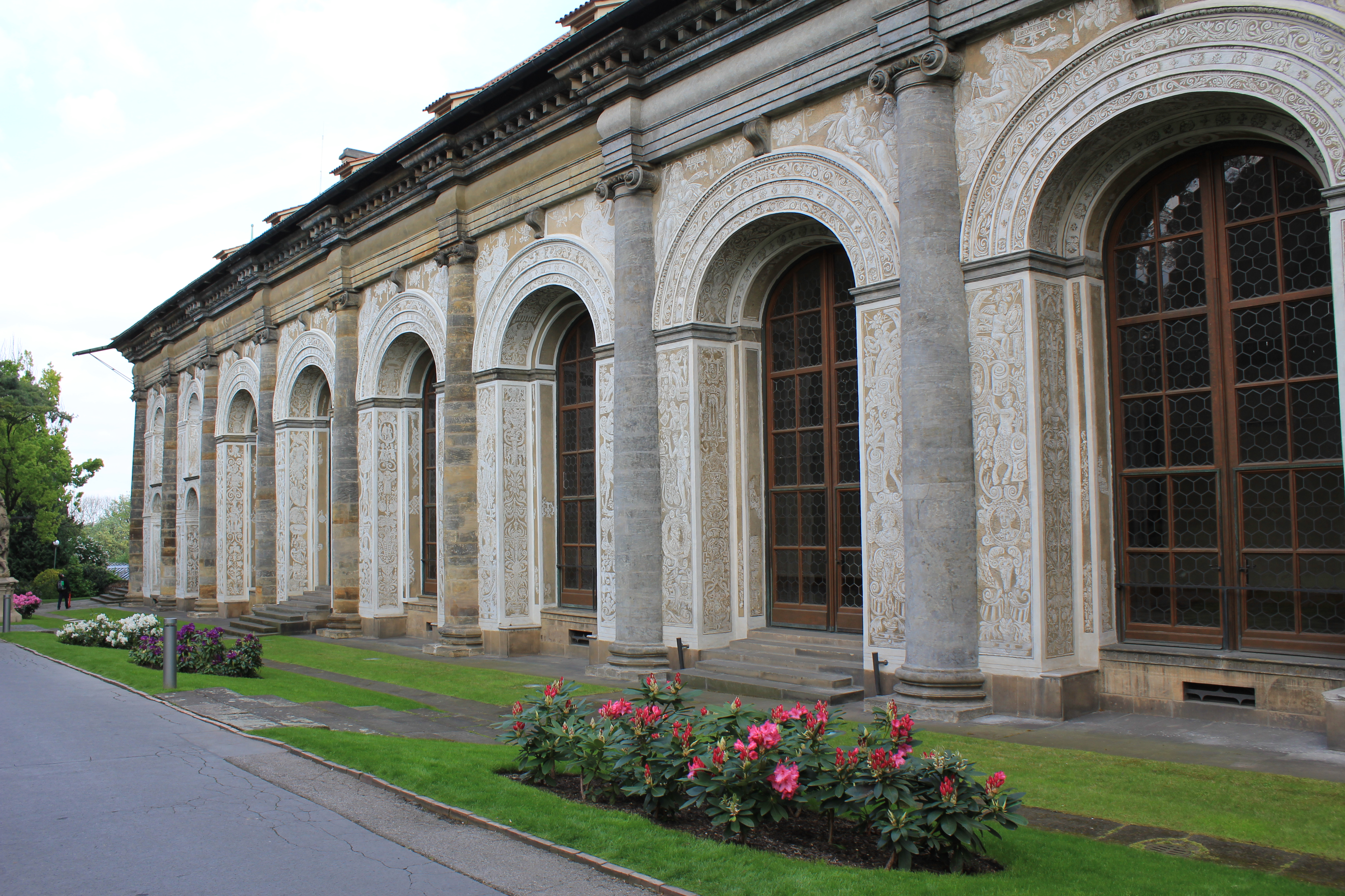 castle garden palace Kralovska Zahrada